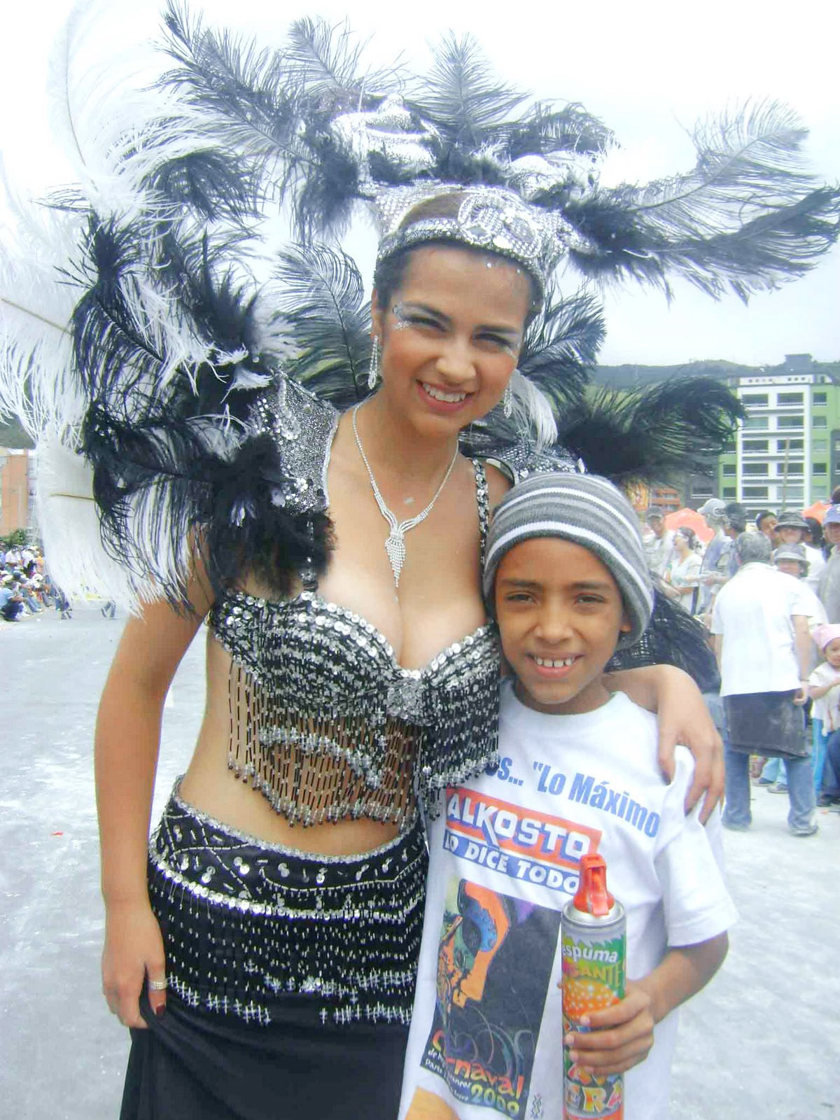 Velina in the Carnival